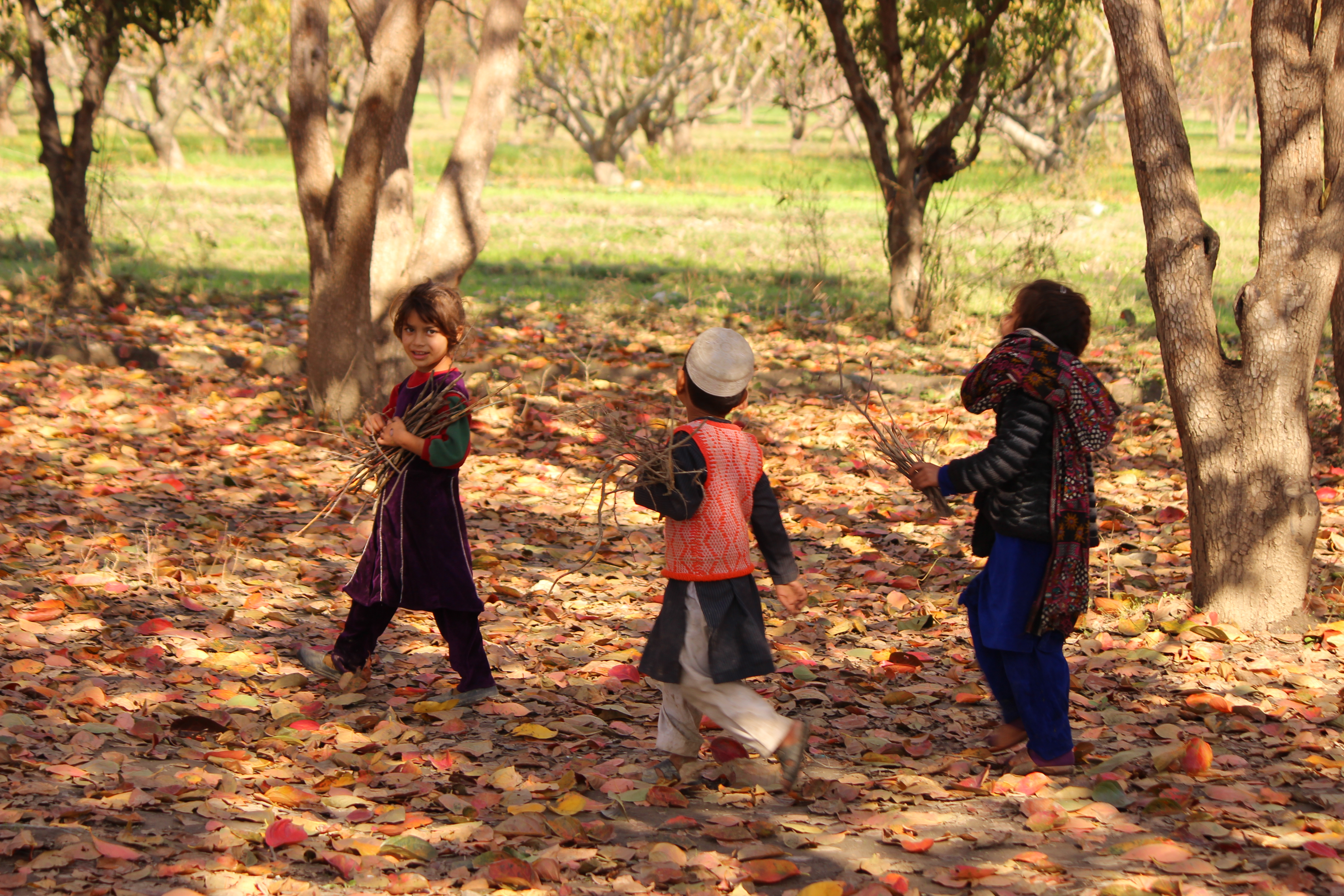 some poor children in search of wood to be taken to their home for the food to be cooked. This picture was taken exactly at the right moment. The location is a village called odigram I